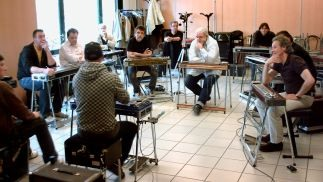 masterclass